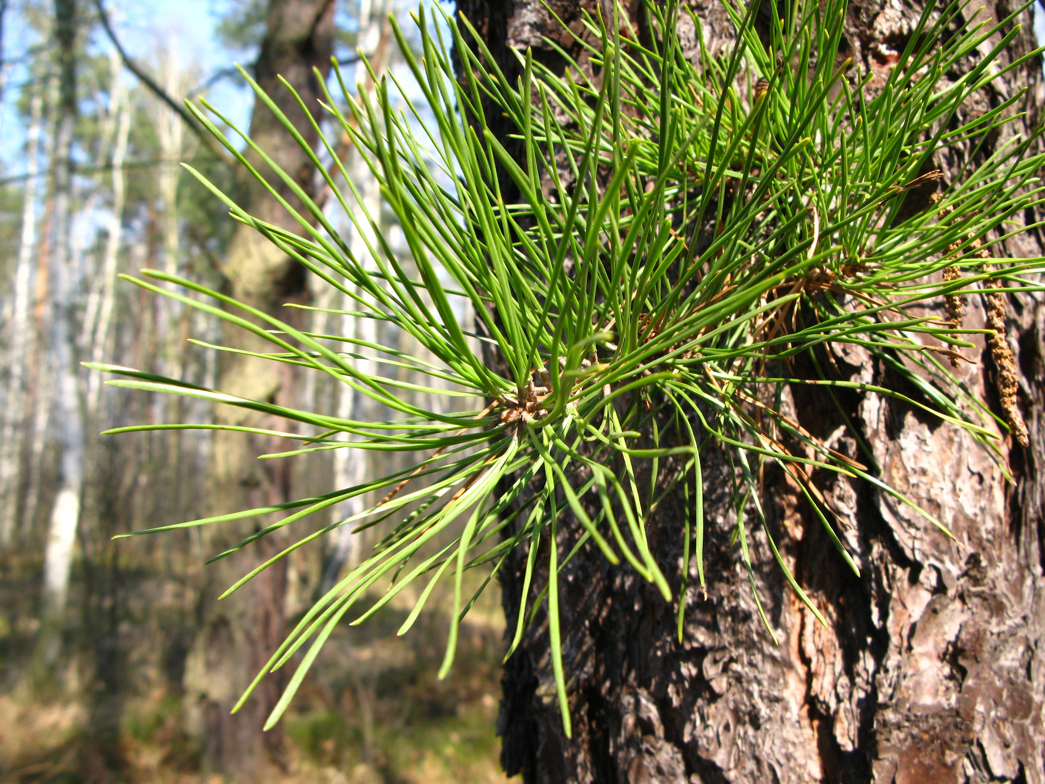 Cultivated Pitch Pine (Pinus rigida) foliage; Drewnica Forests in Gmina Nieporęt, Poland